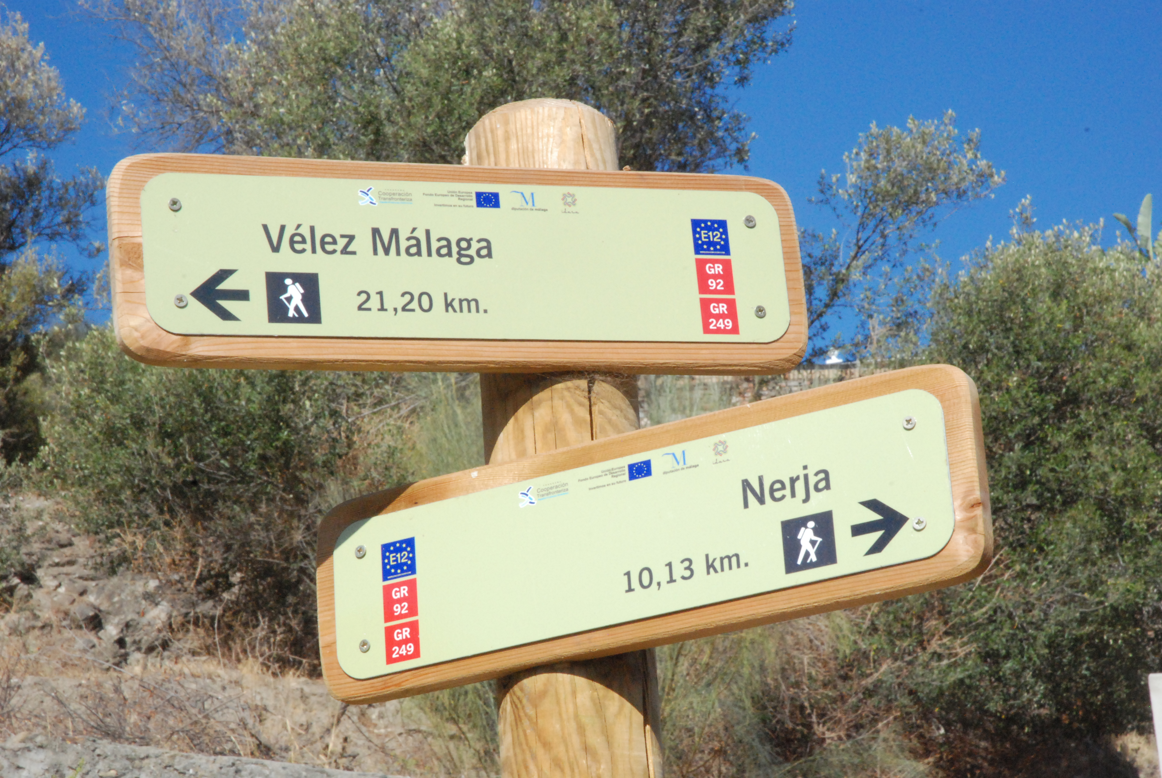 GR-249 hiking sign in Torrox